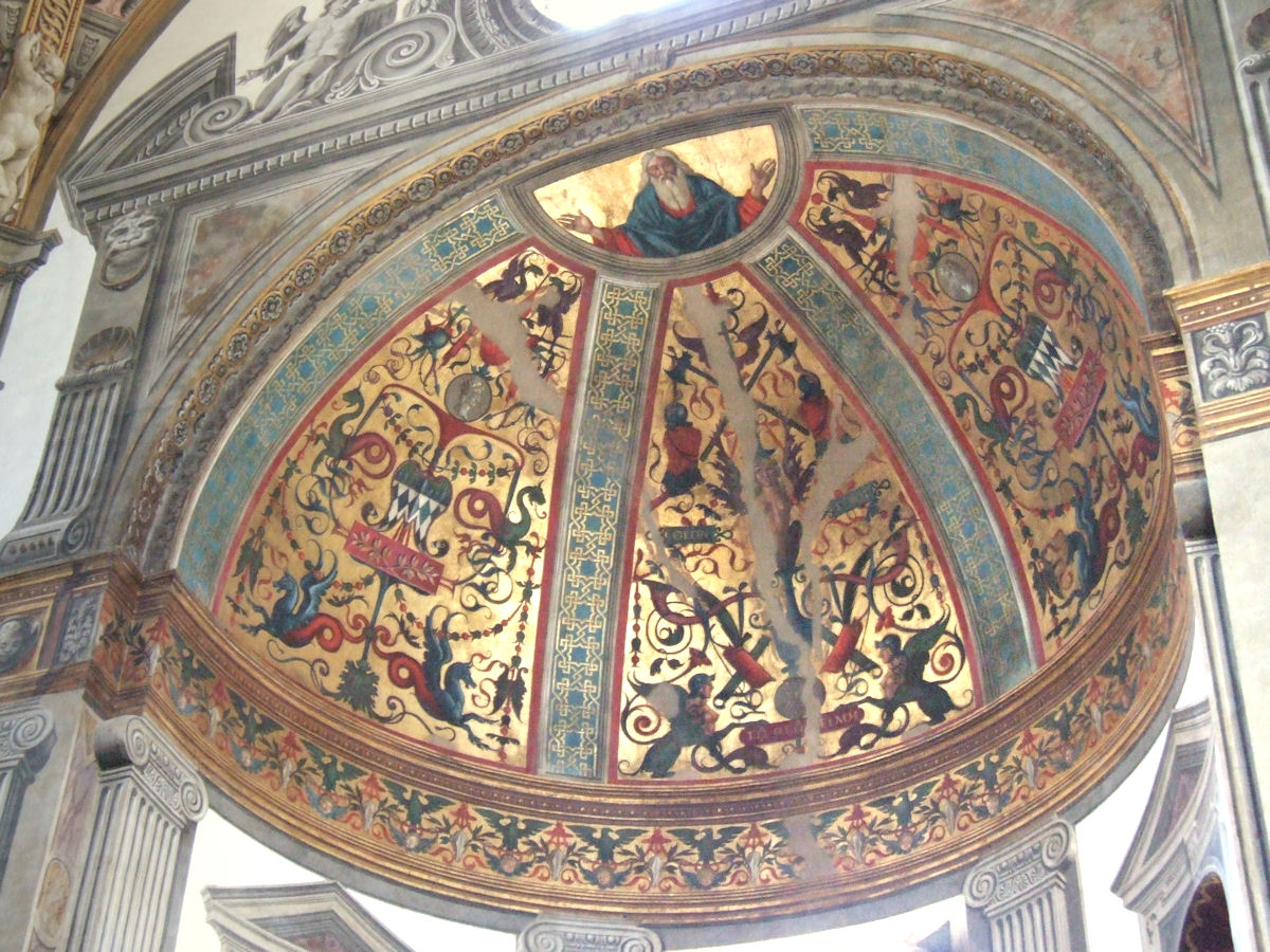 Duomo di Parma (Cathedral of Parma), Parma, Italy.